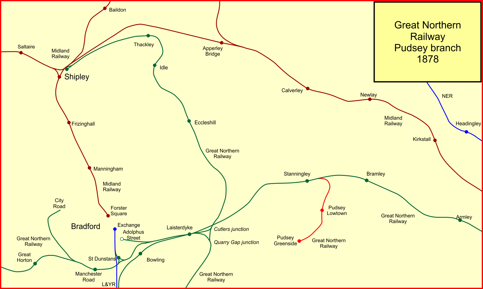 System map of railway lines in West Yorkshire, England: the Shipley branch line and the Pudsey branch line, as they were in 1878